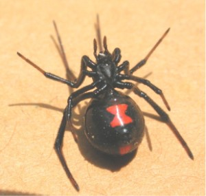 Black widow from below. Hemingway, South Carolina